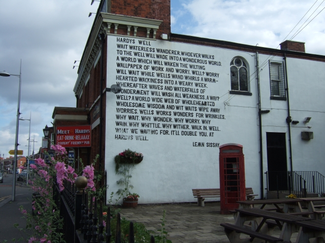 Wall poem and pub tables, Wilmslow Road, Manchester